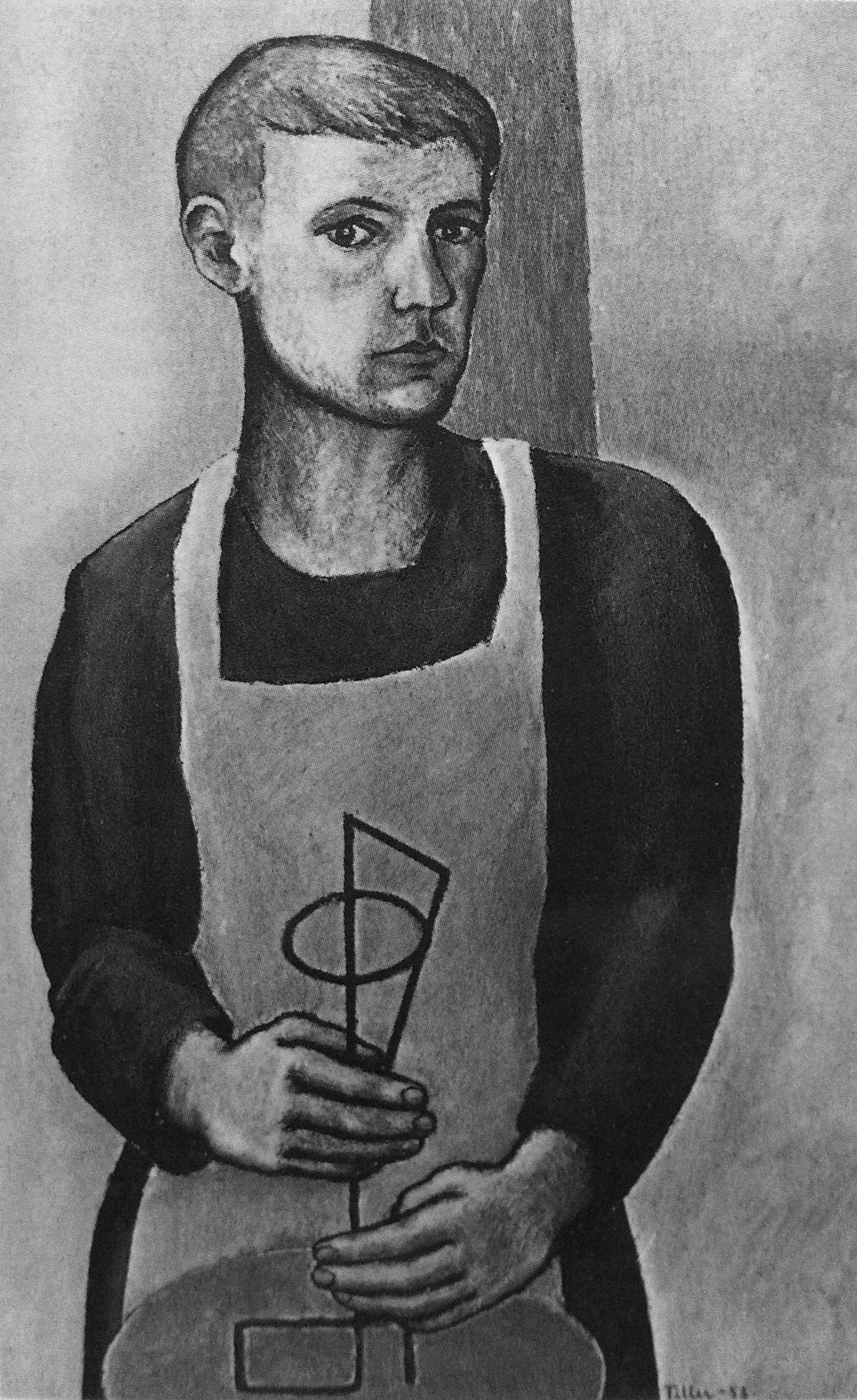 Black/white photo of the painting "The sculptor" by the Norwegian artist Lars Tiller